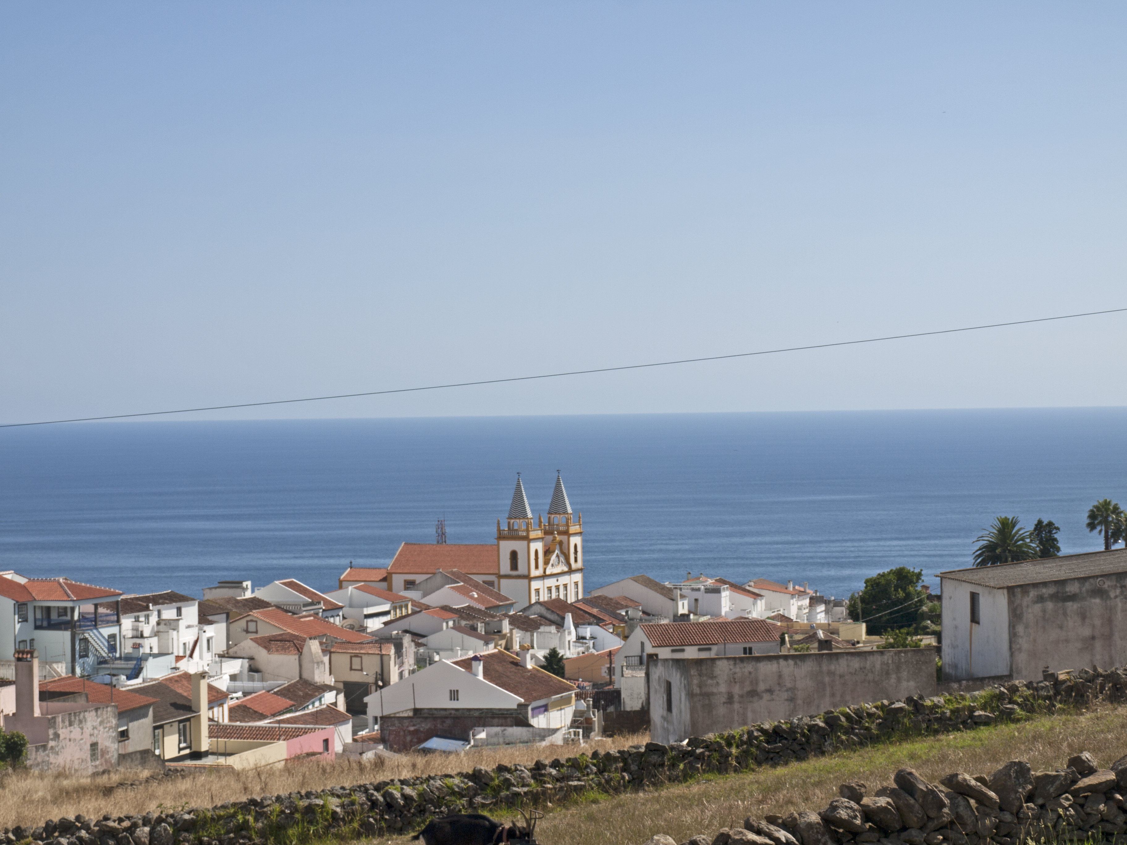 Panorama of Ribeirinha, Angra do Heroismo, from Canada do Fransisco Alves